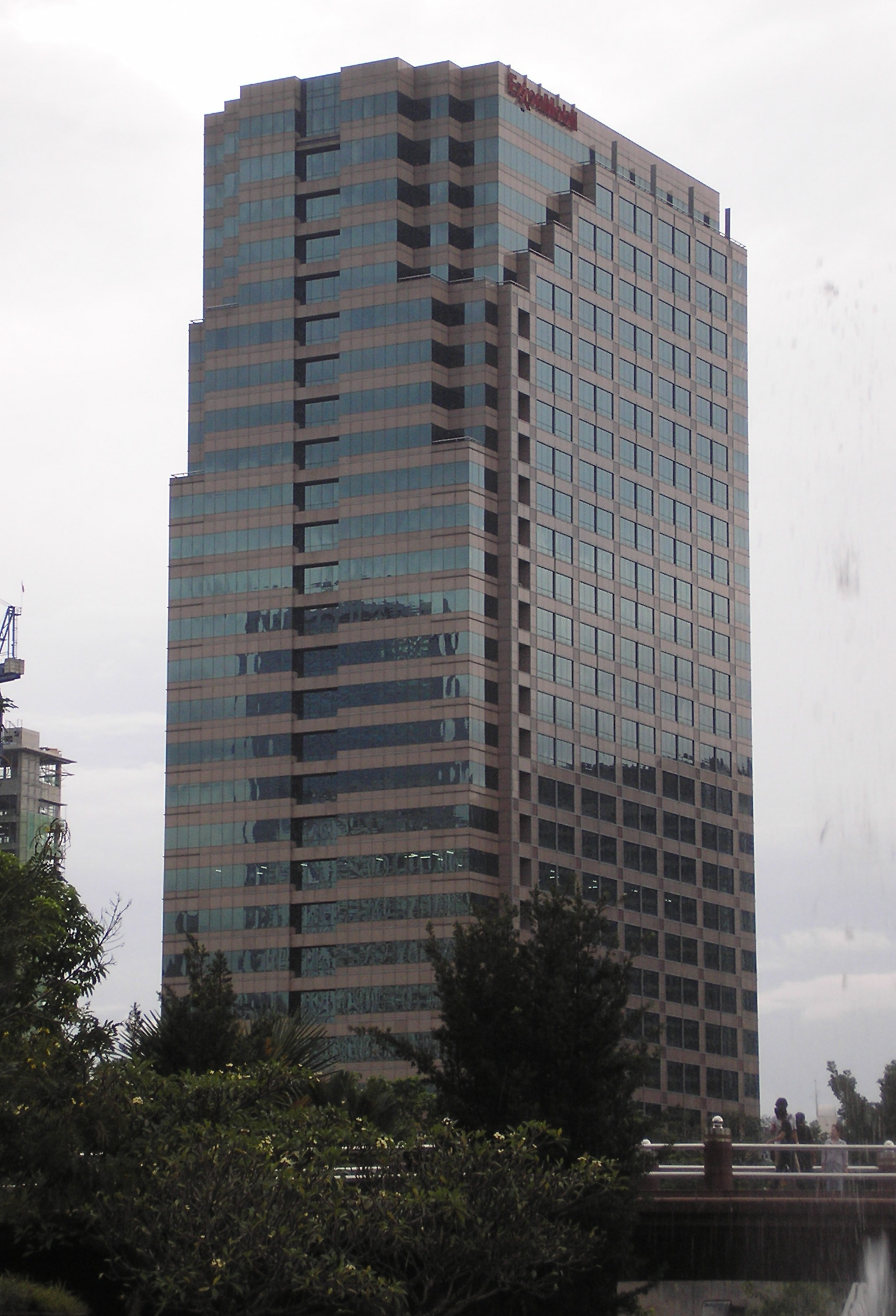 ExxonMobil Tower (Menara ExxonMobil) off Jalan Kia Peng (Kia Peng Road), in the (new) Kuala Lumpur City Centre (KLCC), Kuala Lumpur, Malaysia. See also entry at Emporis.